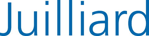 Logo of The Juilliard School.